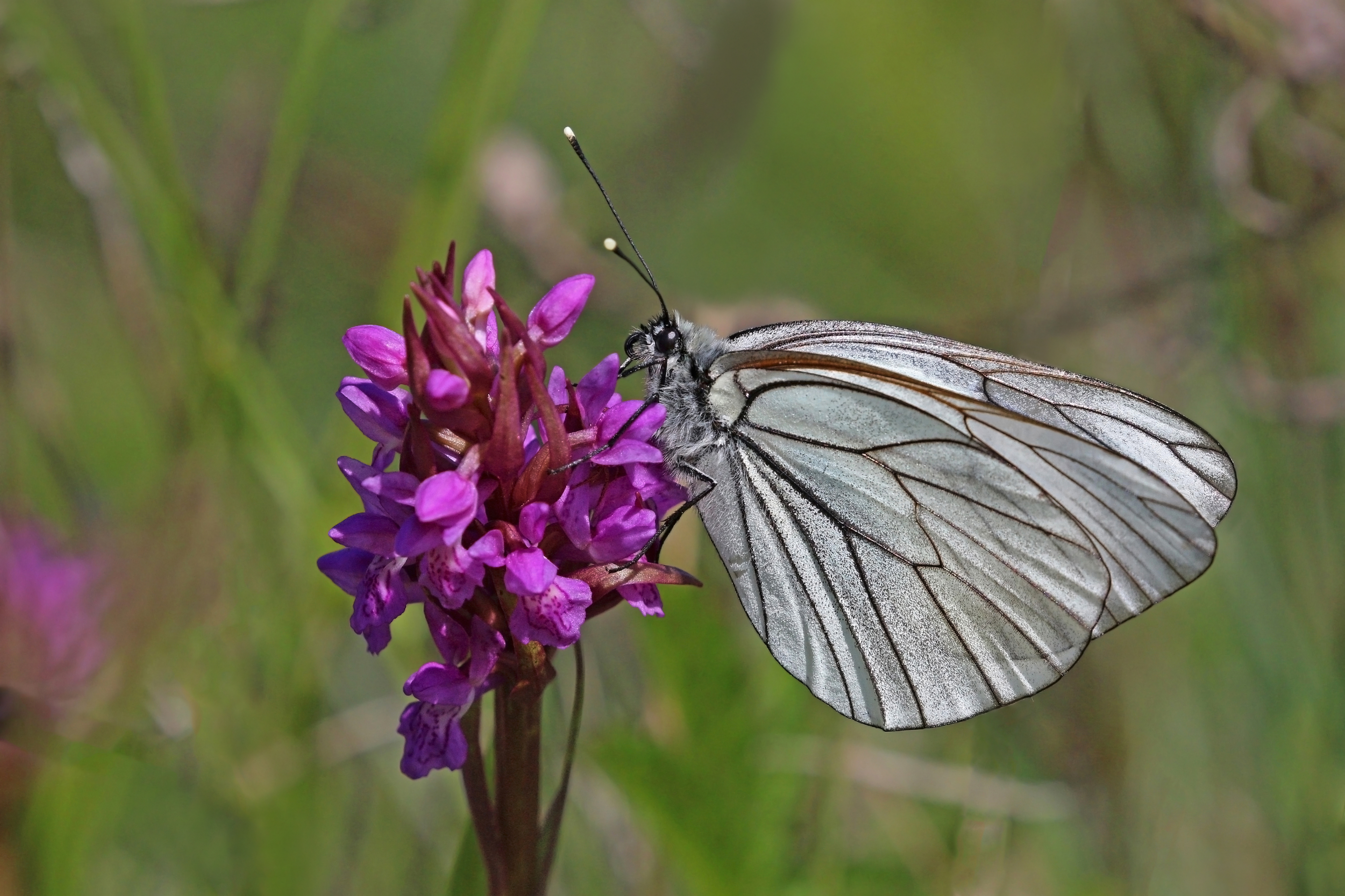 Black-veined white (Aporia crataegi) male, on early marsh-orchid (Dactylorhiza incarnata), Tagamõisa Conservation Area, Saaremaa, Estonia